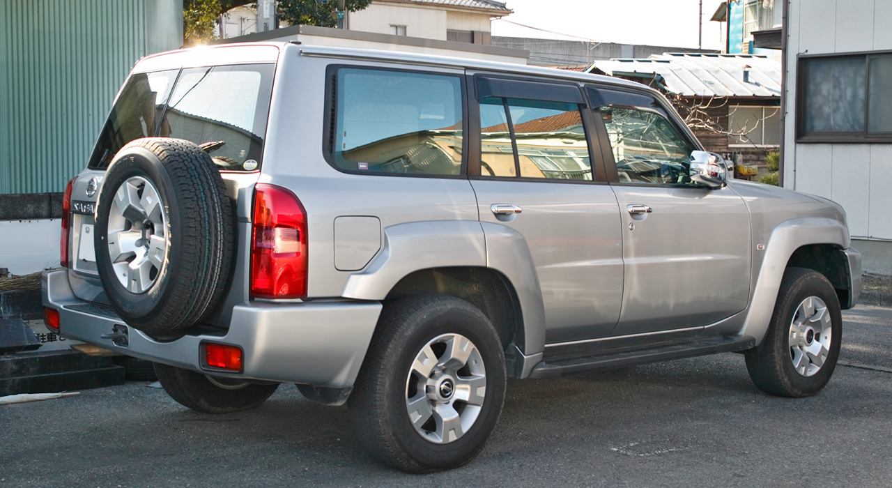 Nissan Safari 4door Wagon 4.8 Granroad Limited ( WFGY61 )